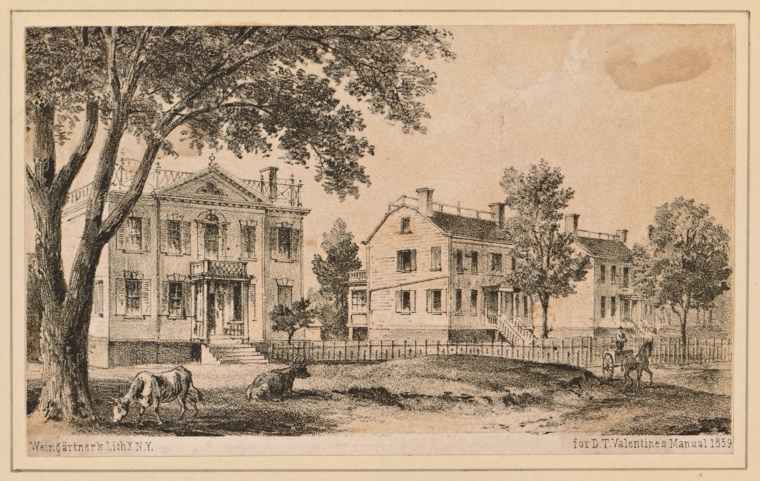 Inclenberg was a large mansion built by Robert Murray in what is now Murray Hill, Newb York City, at the corner of 36th Street and Park Avenue